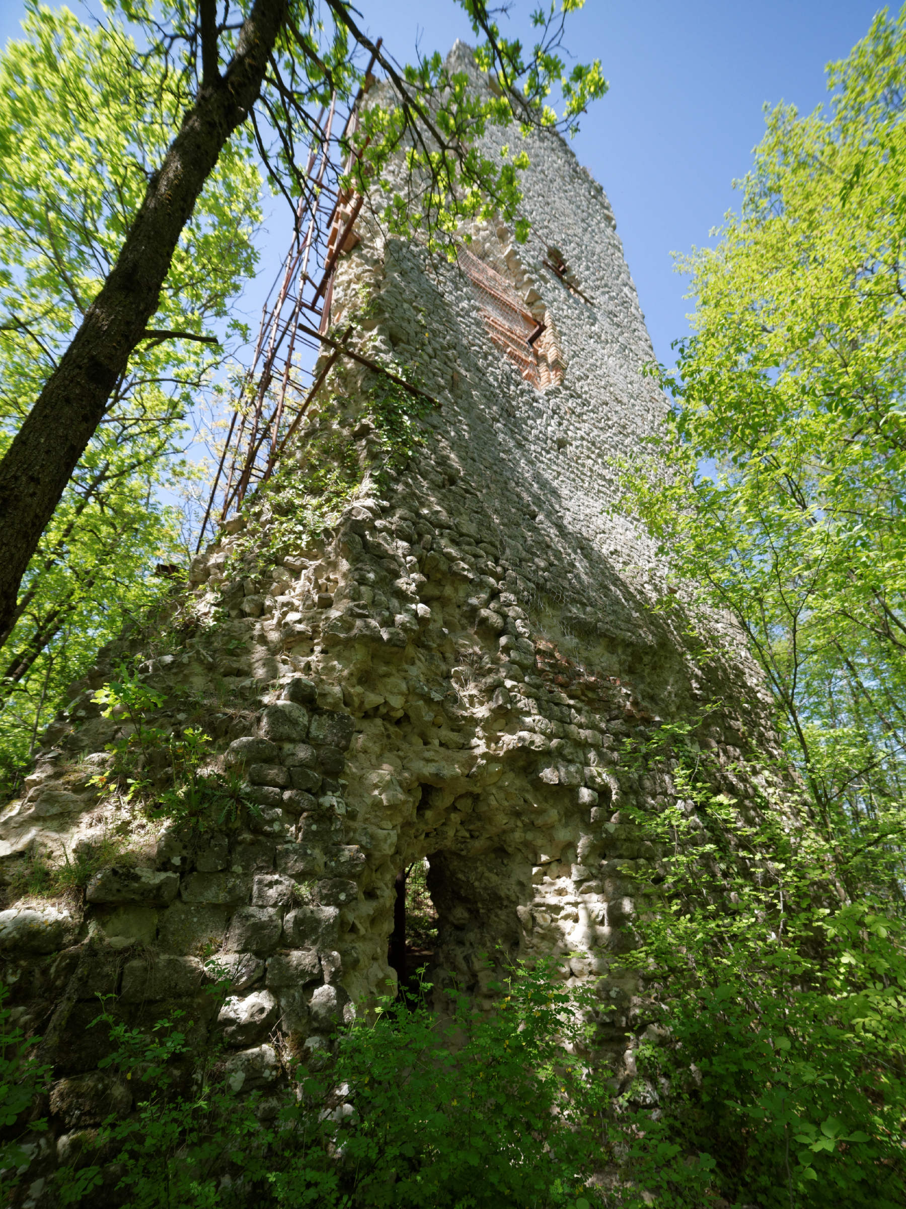 Castle of Guardasone, Traversetolo (PR), Italy.